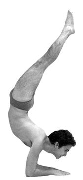 Pincha Mayurasana, feathered peacock pose